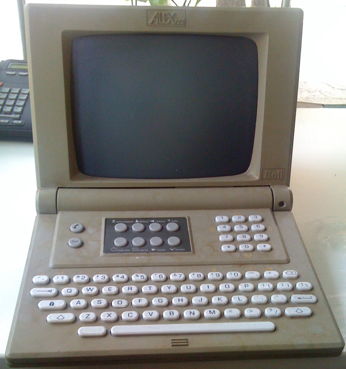 This Alextel terminal was found sitting on its own at a shop at the University of Toronto.